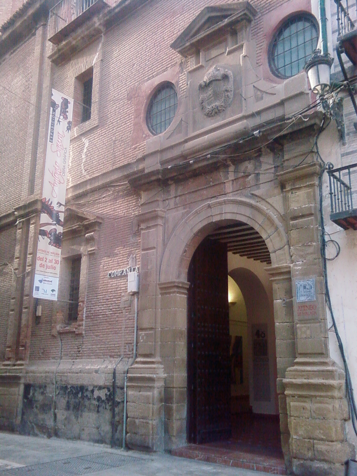 Novitiate of Saint Sebastian or Saint Elm School, Málaga, Spain